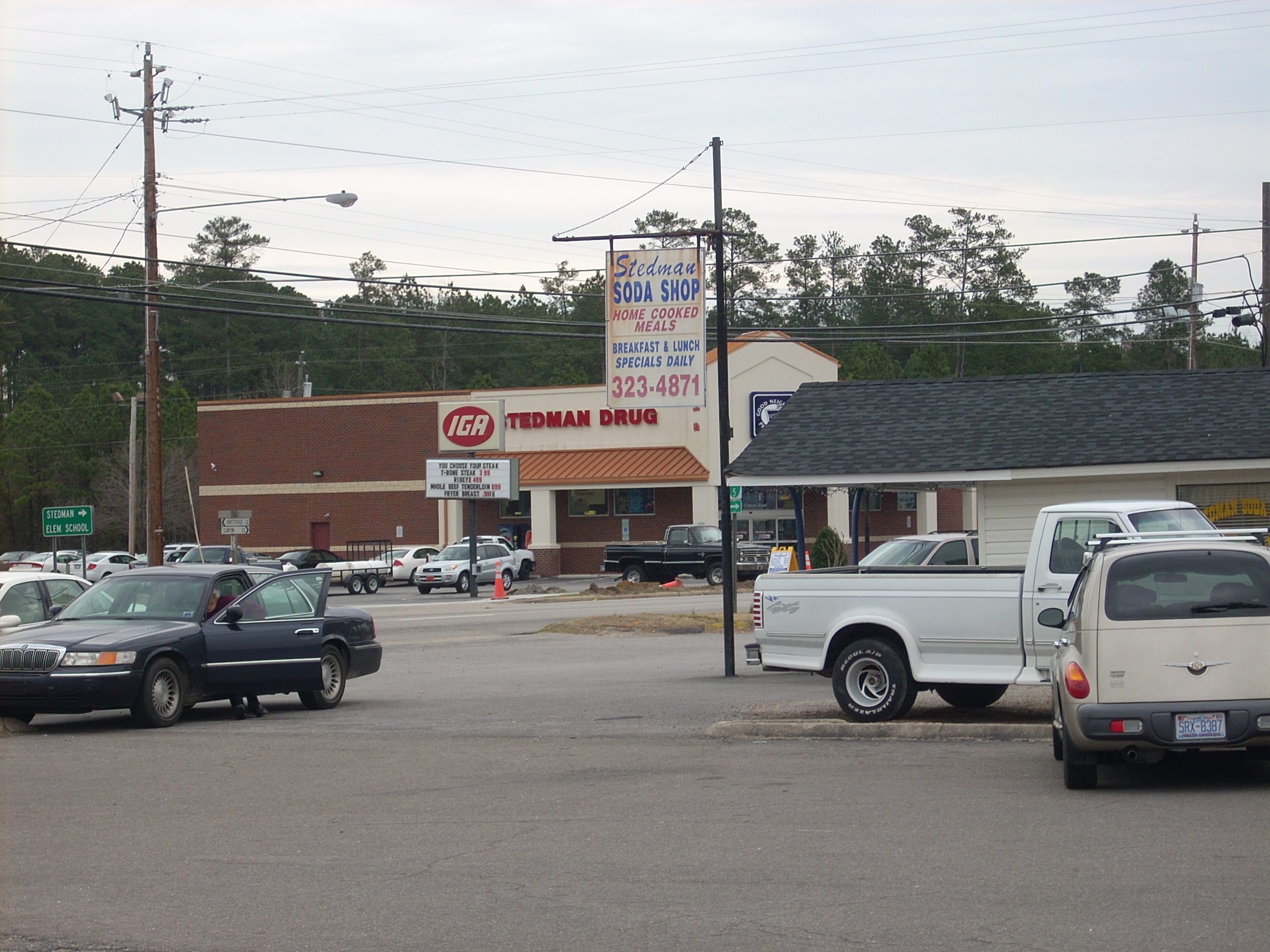 Stedman, North Carolina showing the Stedman Soda Shop and Stedman Drug